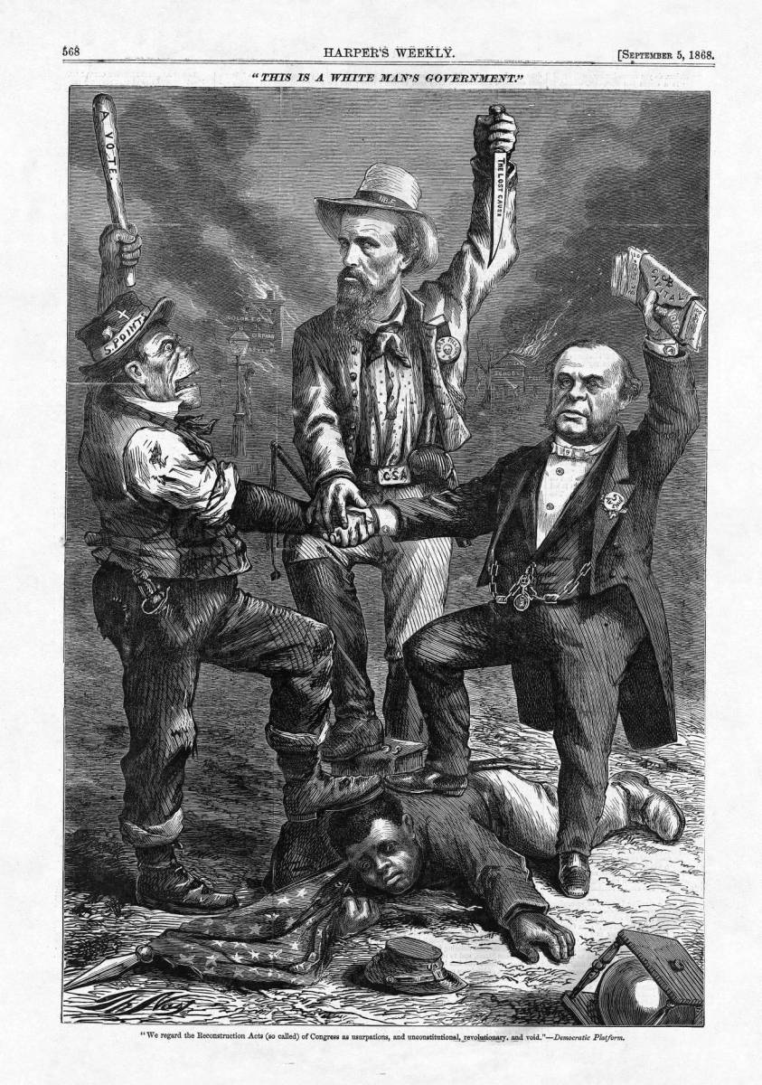 'This is a White Man's Government!' (September 1868), 'Harper's Weekly'